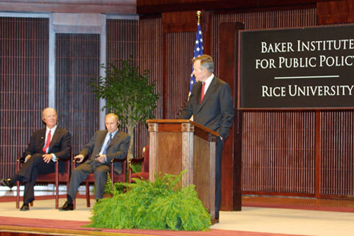 HOUSTON, TEXAS. George Bush Sr. making a public address at Rice University.